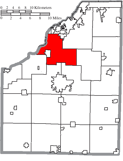 Map of the municipal and township boundaries of Wood County, Ohio, United States, as of the 2000 census, with the location of Middleton Township highlighted. Township borders are shown only in unincorporated areas in order to differentiate incorporated and unincorporated areas more clearly.